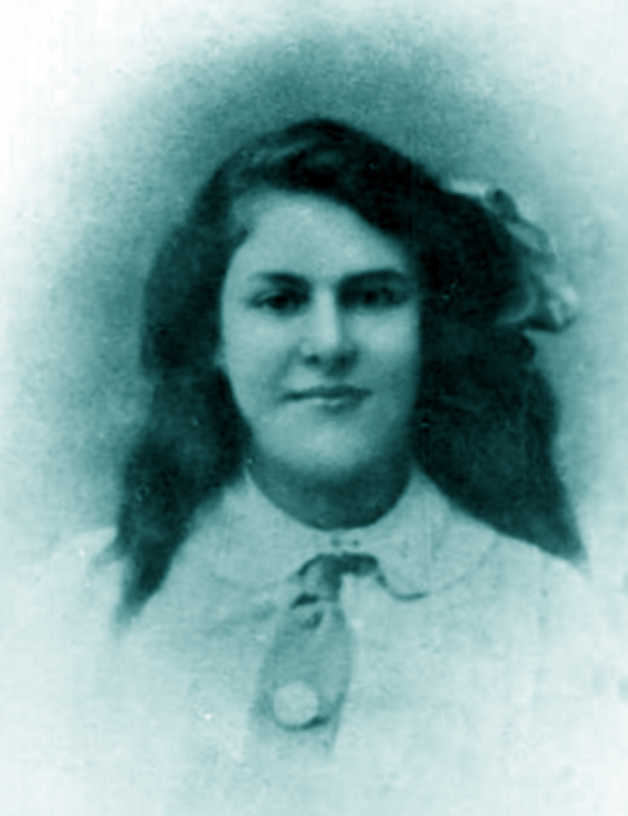 Early picture of Sarah Herzog, the Founder of Emuna, a women's religious movement, and wife of Rabbi Yitzhak Herzog, Ashkenazi Chief Rabbi of the Land of Israel and of the State of Israel/